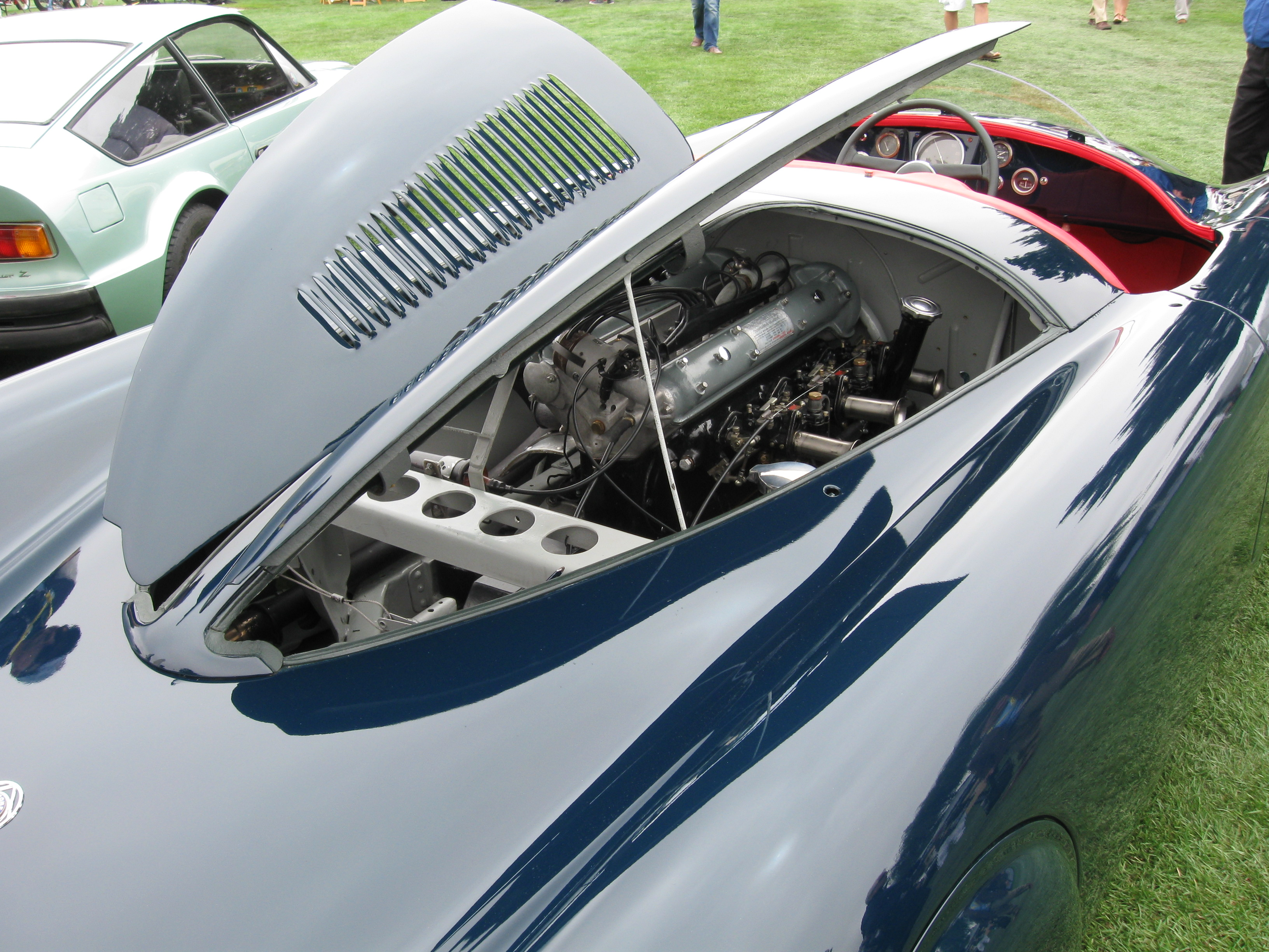 1935 Alfa Romeo 6C 2300 Aerodinamica Spider